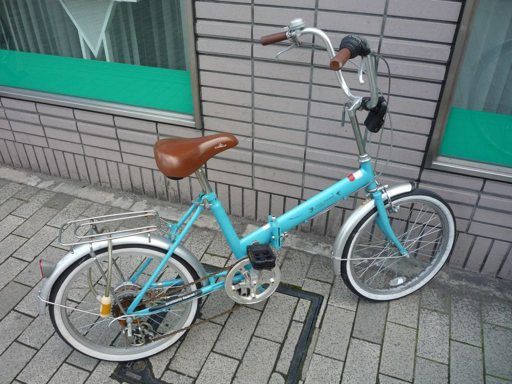 Mini-Cycle Folding-Type